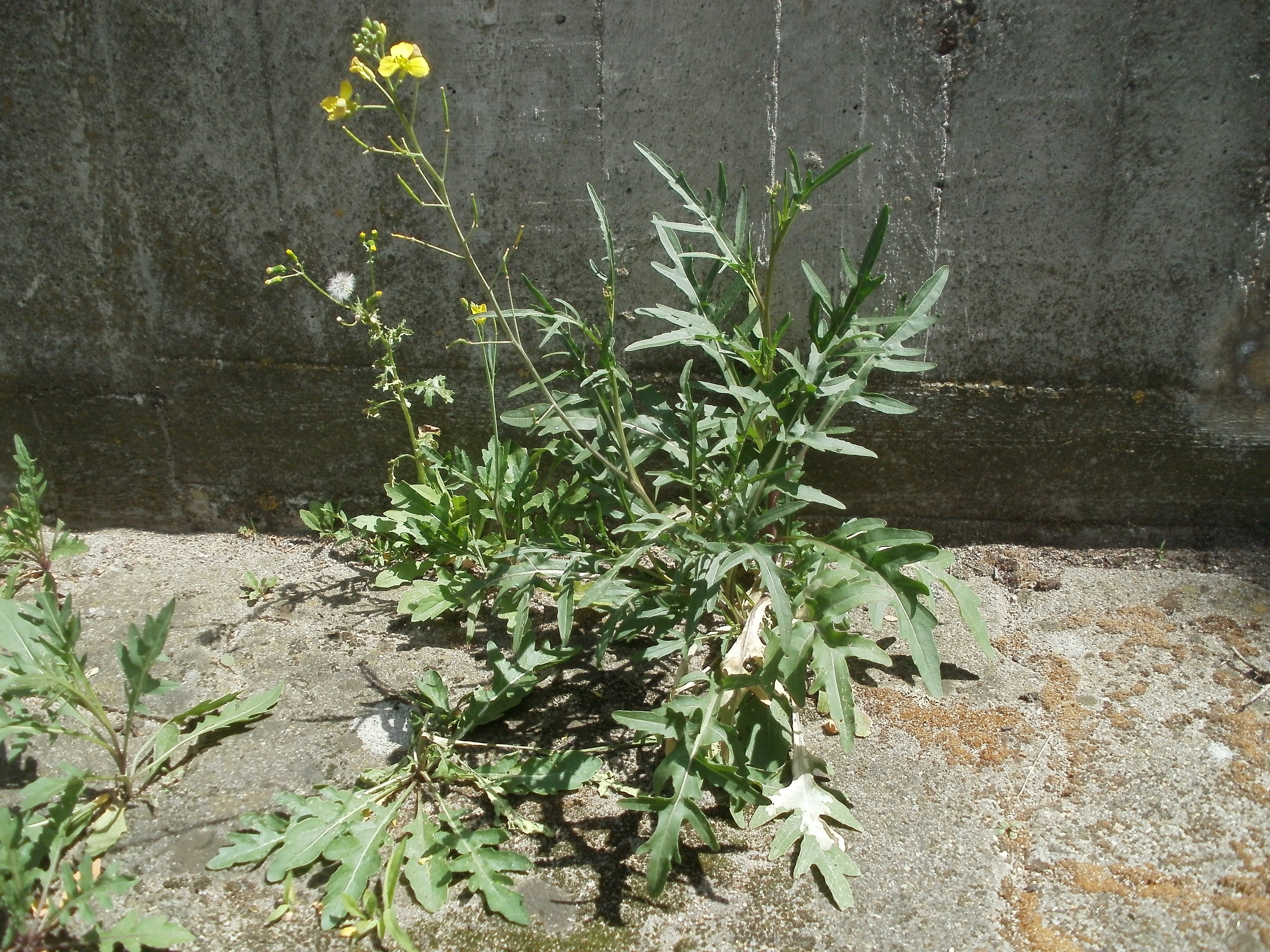 Wild rocket (Diplotaxis tenuifolia) in the Hockenheim train station.